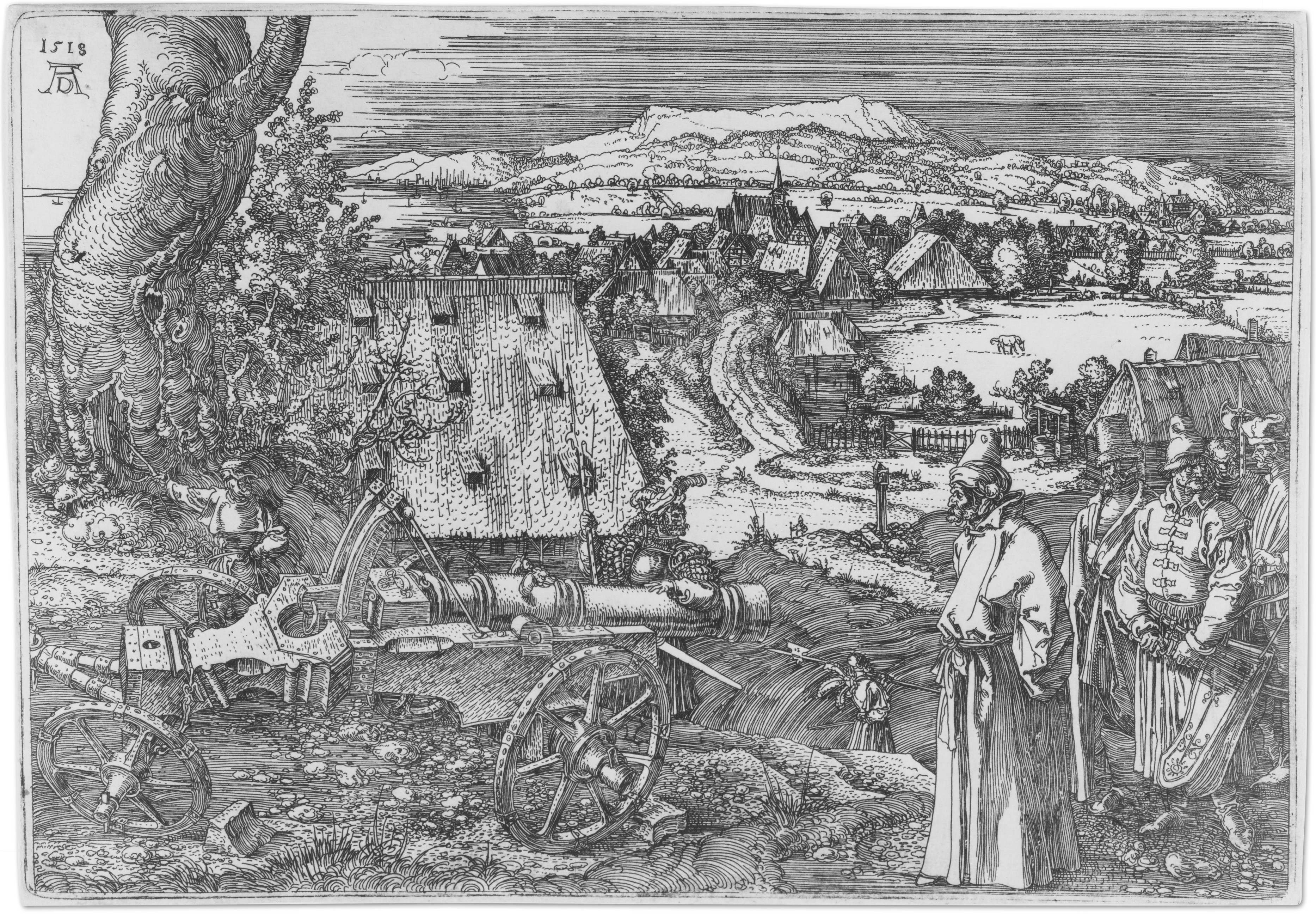 Print; Prints